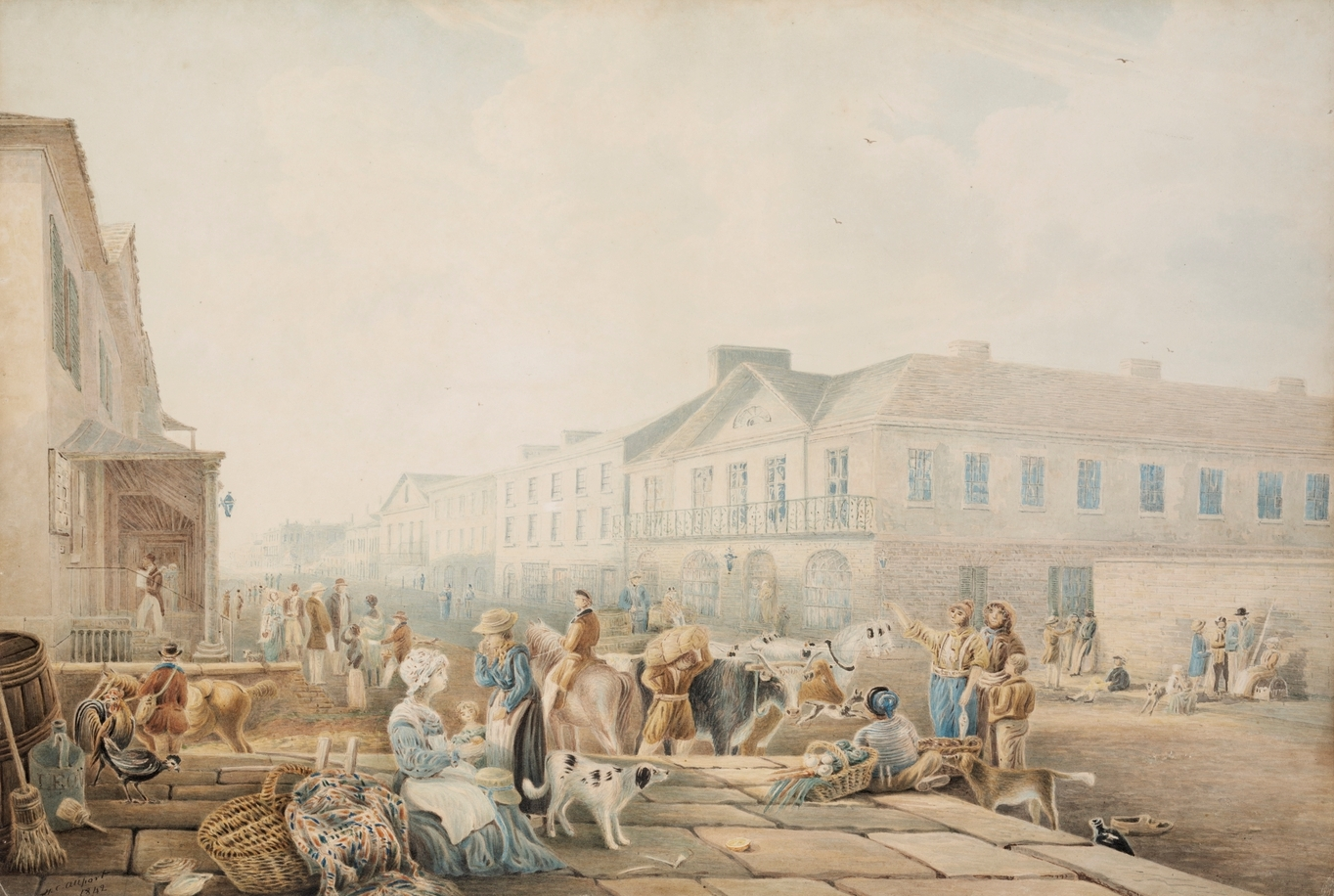 George Street, Sydney - looking south, watercolour, 33.9 x 50.2 cm